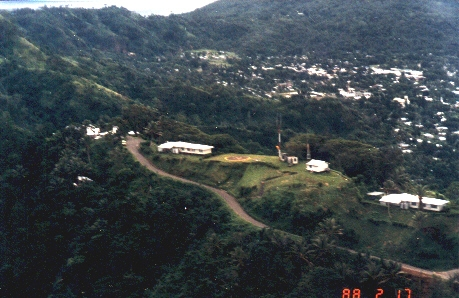 A distant view of Rabaul Volcanological Observatory